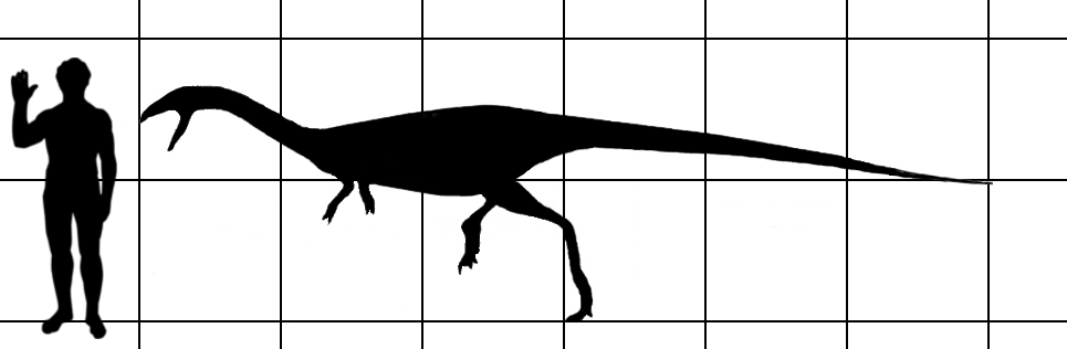 Size comparison of Elaphrosaurus with a human. Elaphrosaurus silhouette modified from skeletal by Jaime Headden, and Human silhouette from NASA (both on commons).